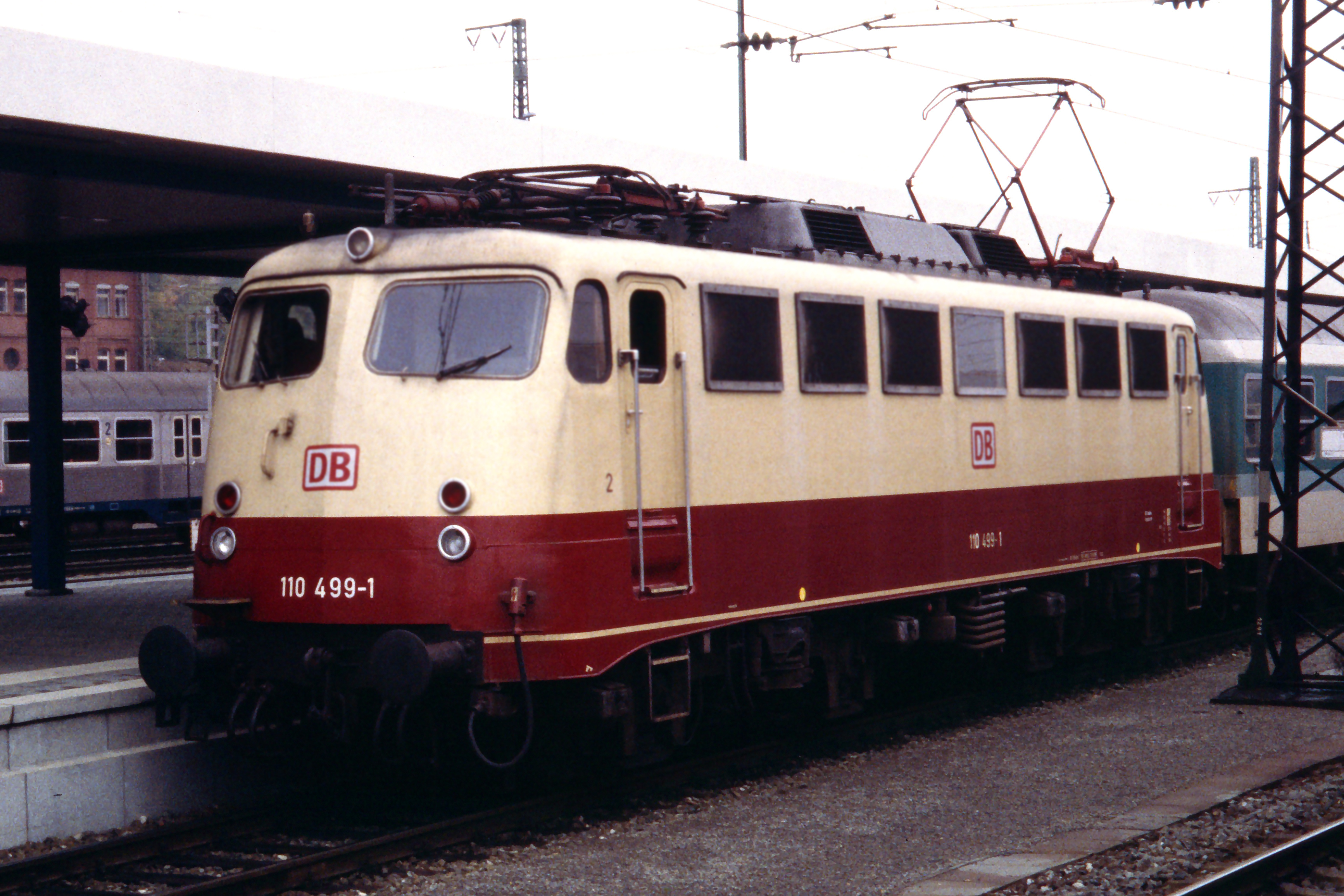 DBAG 110 499-1 (built in 1968) at Würzburg Main Station